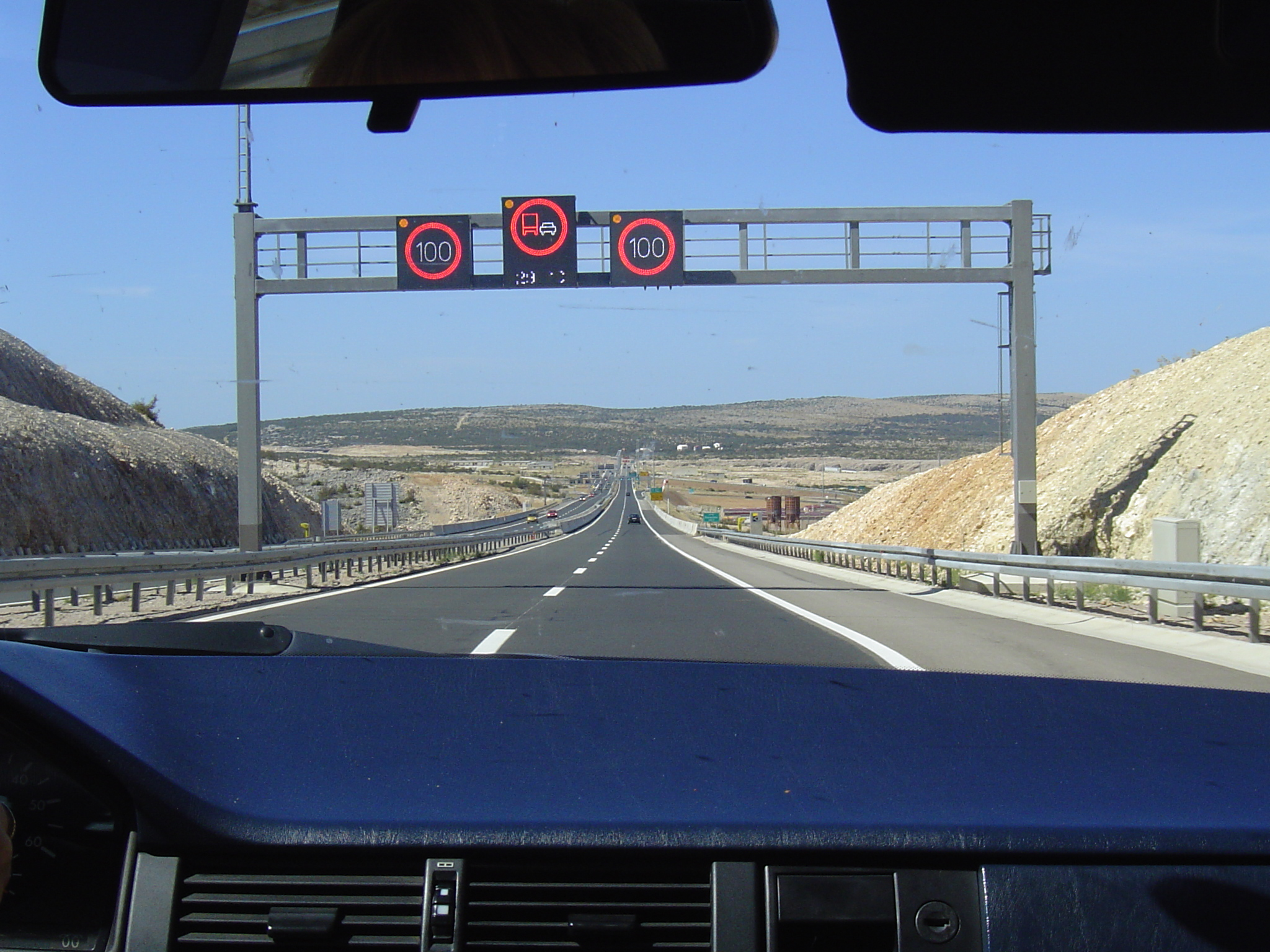 New highway in Croatia between Zagreb and Split, south of the tunnel Sveti Rok